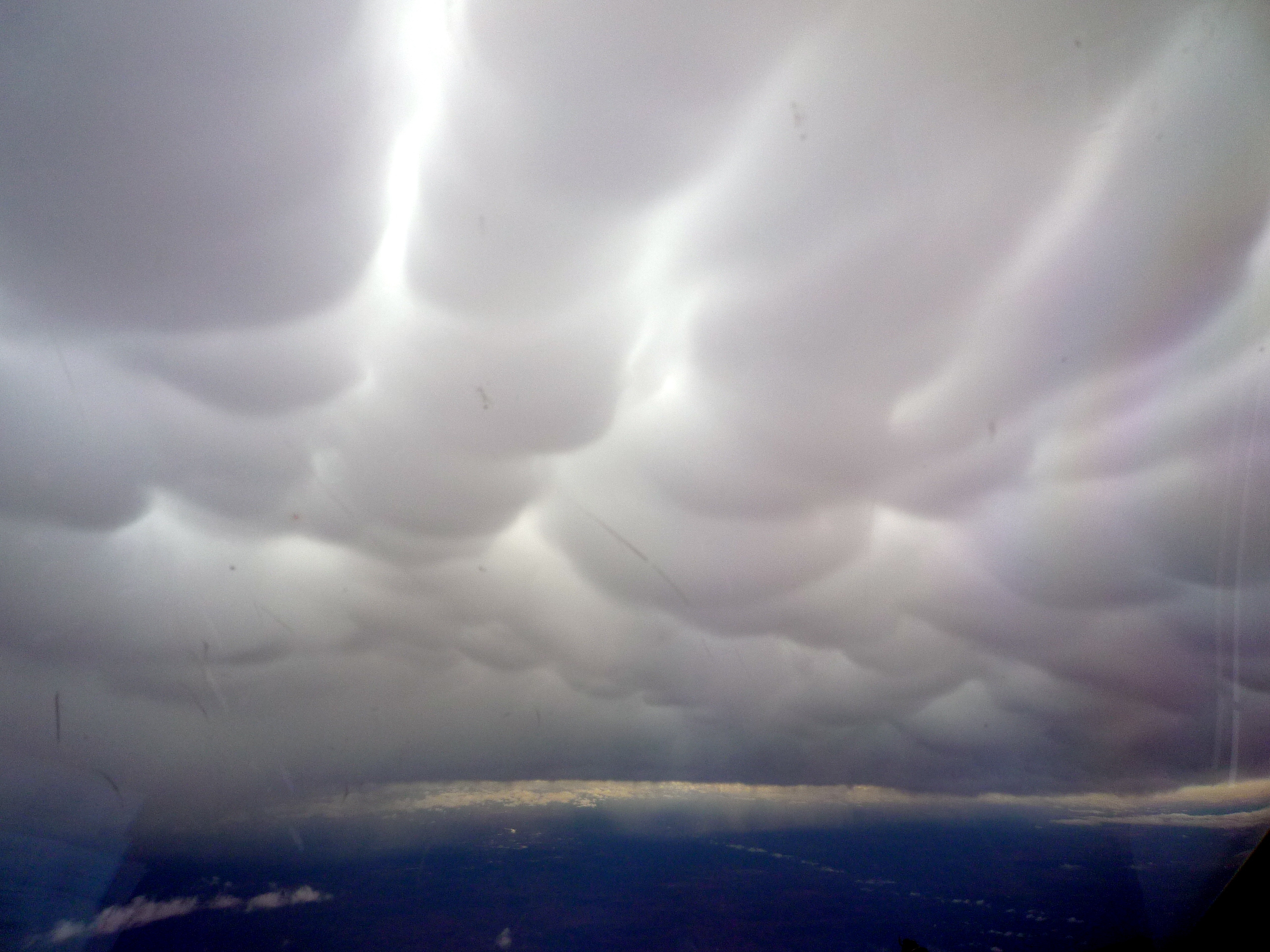 Aerial photo of mammatus clouds over central New South Wales, Australia, at an altitude of 17,000 ft. There was widespread storm activity in the area, but only light turbulence was encountered.